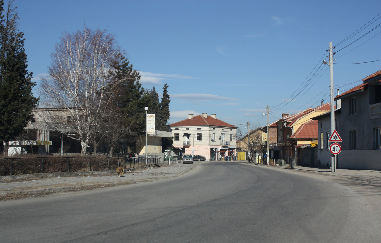 Vetren dol center